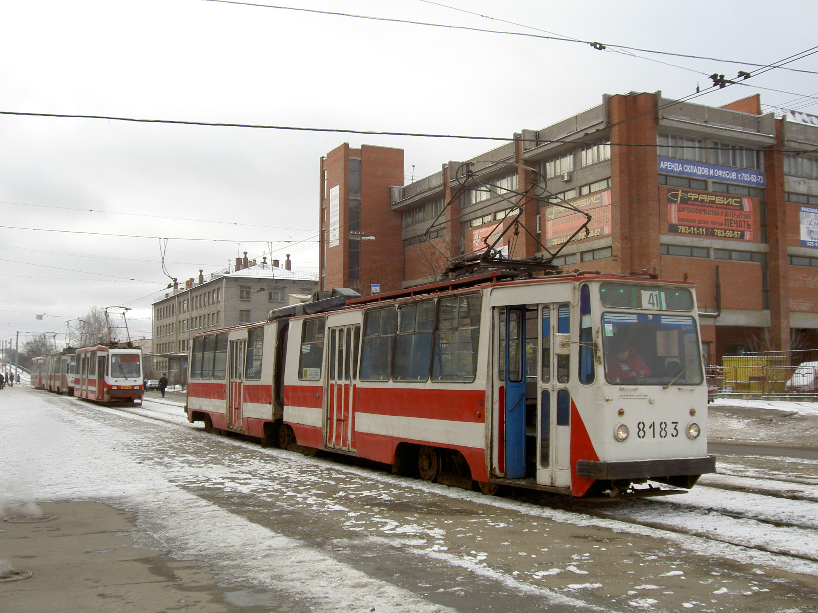 Trams at Kronshtadskaya street in Saint Petersburg